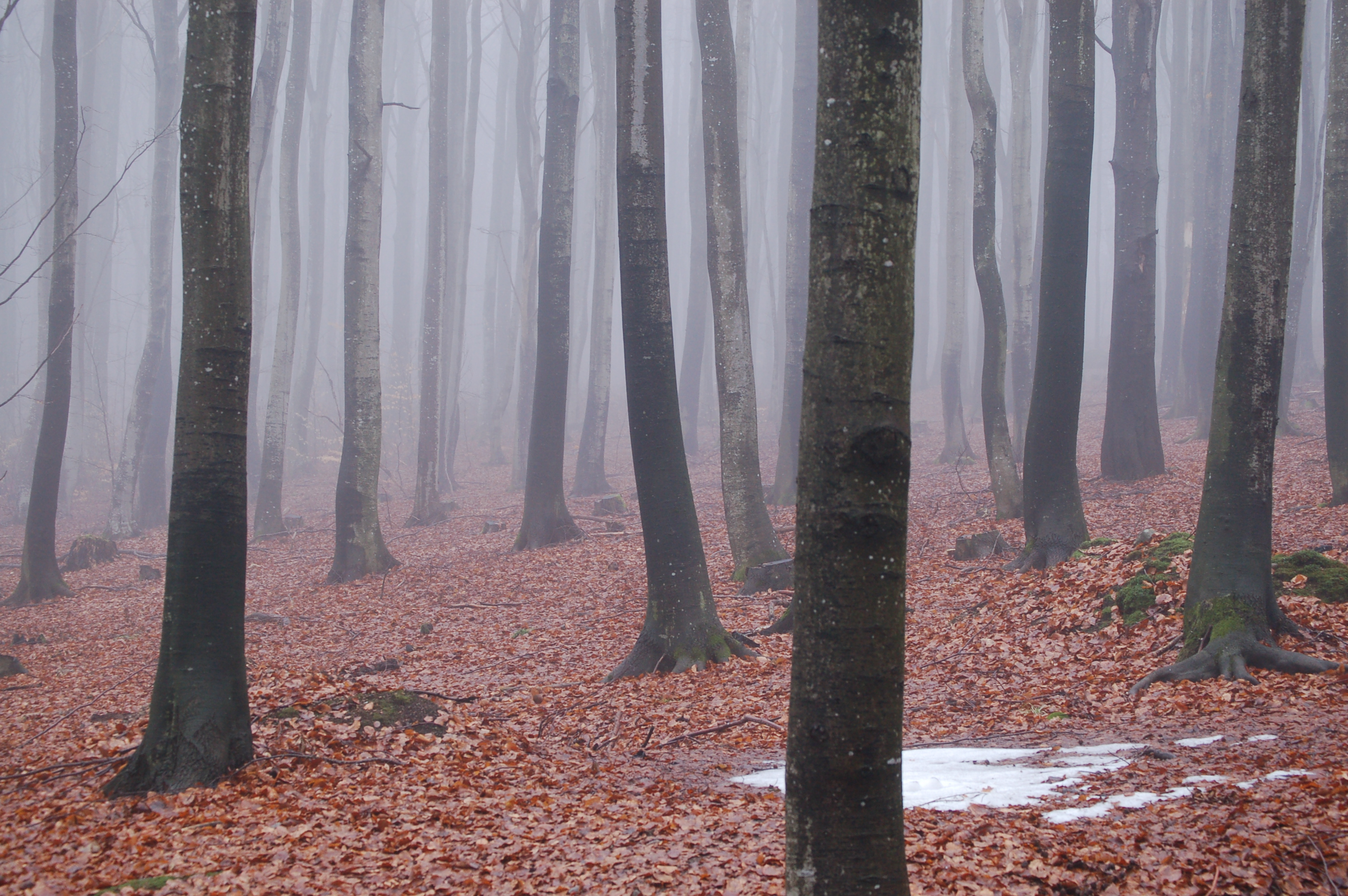 European Beech. From the Beech Forest of Larvik, Norway